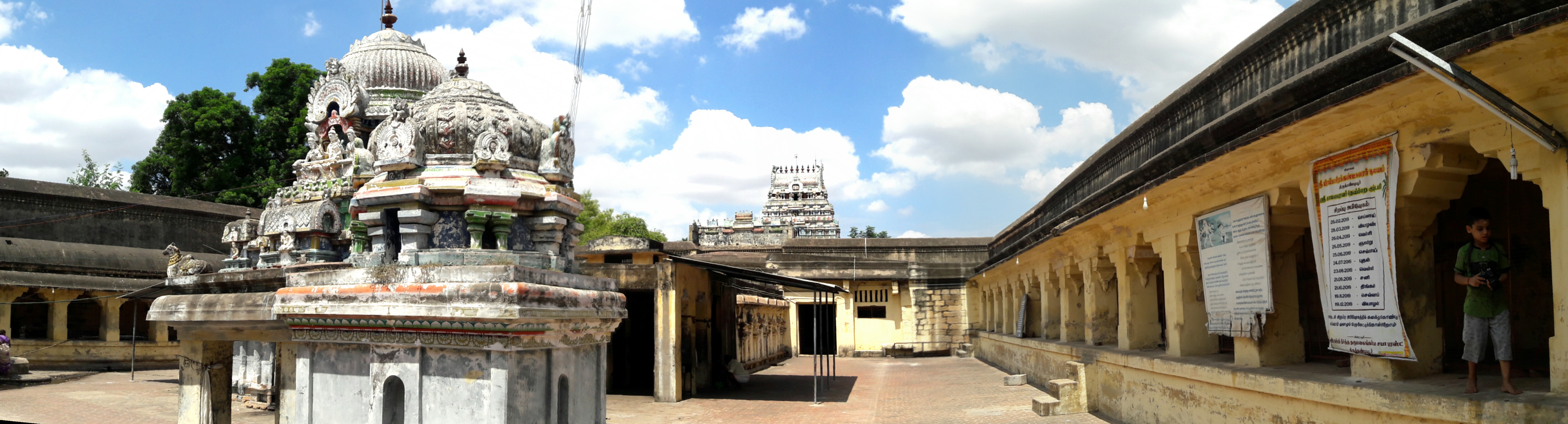 Brahma Kandeeswarar temple Thirukandiyur